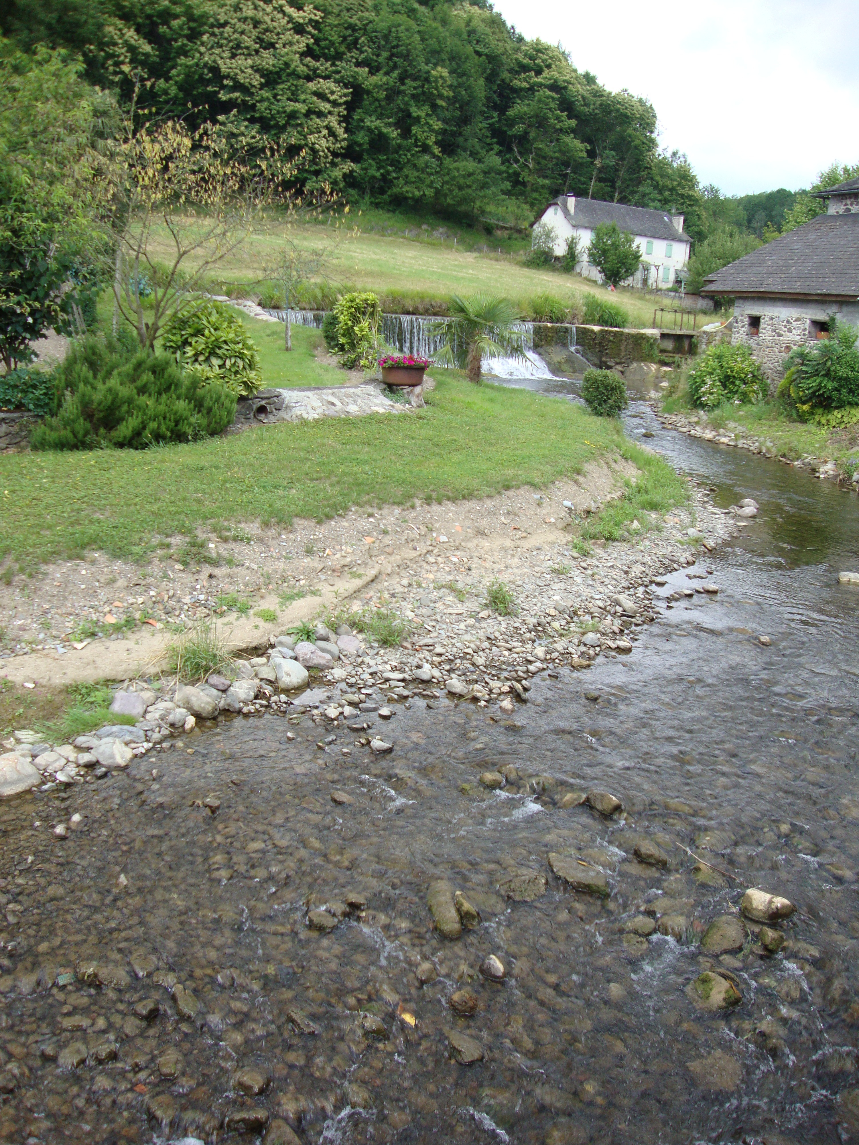 Arette (Pyr-Atl, Fr) Vert d'Arette (river), 1.JPG